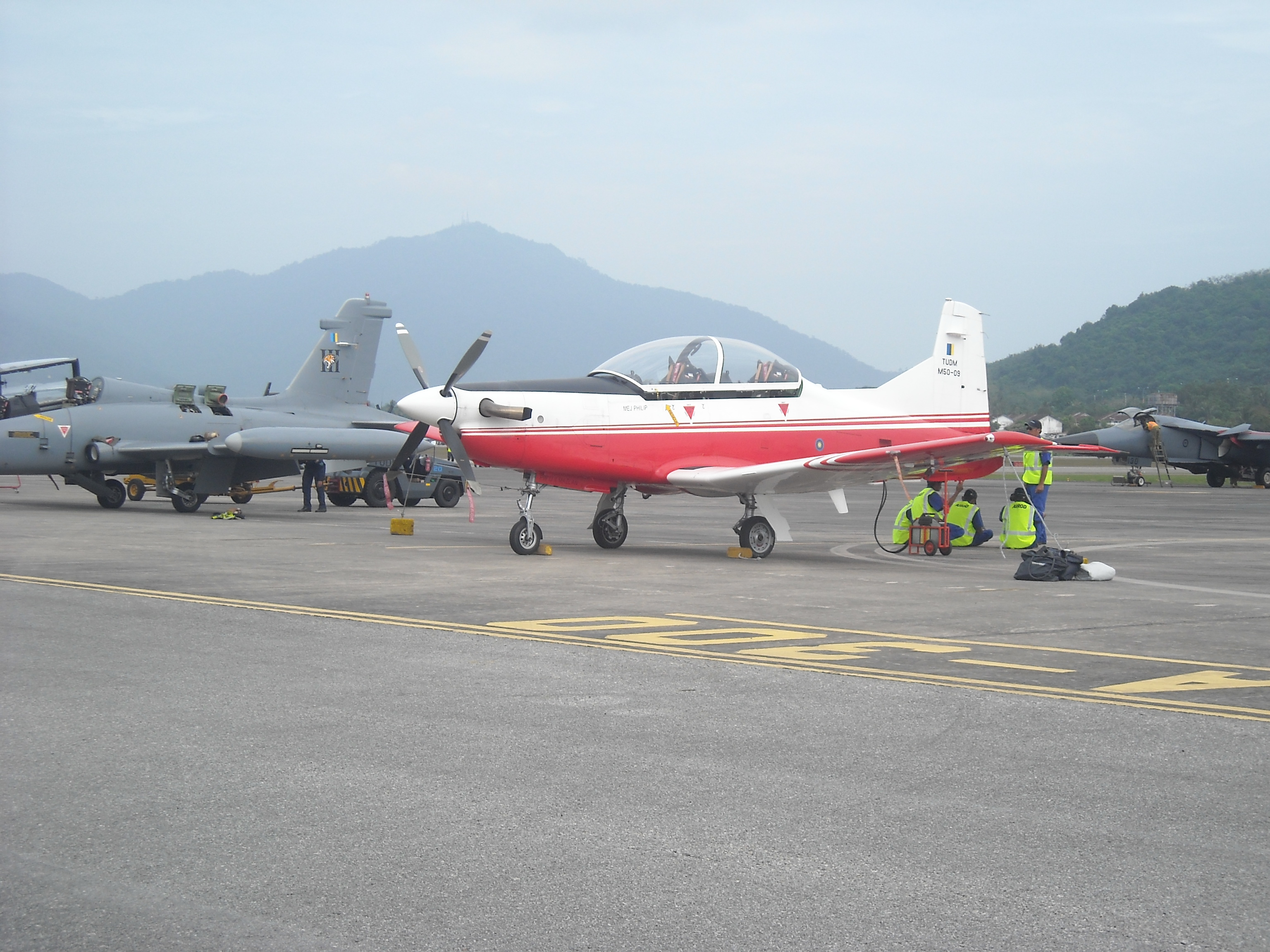 The Pilatus PC-7 Mk.II serial number M50 of Royal Malaysian Air Force at Langkawi International Maritime and Aerospace Exhibition 2009 or LIMA 2009 at Langkawi Airport. Taken by me at Langkawi Airport, Langkawi, Kedah, Malaysia.